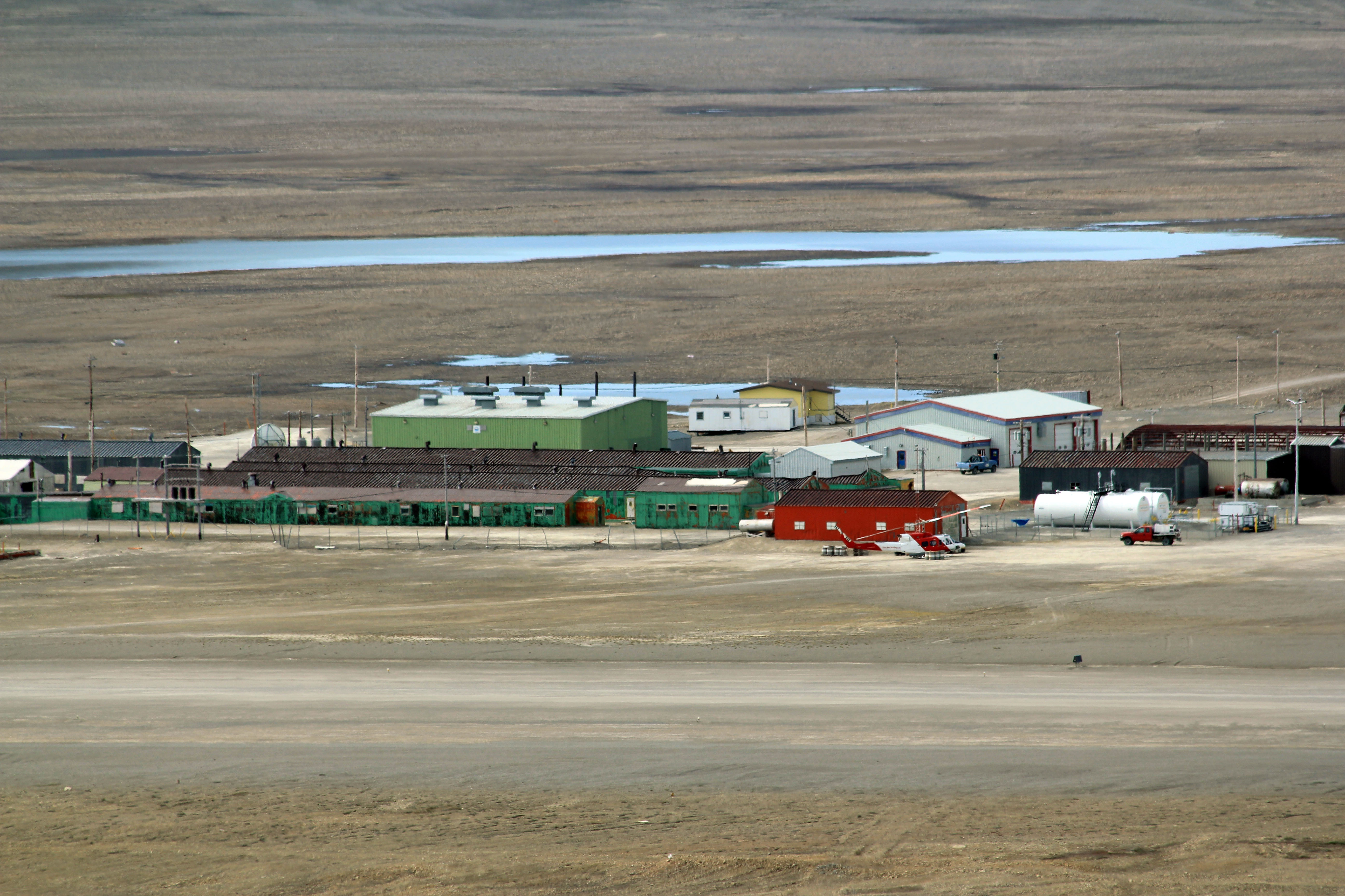 View from atop the hill